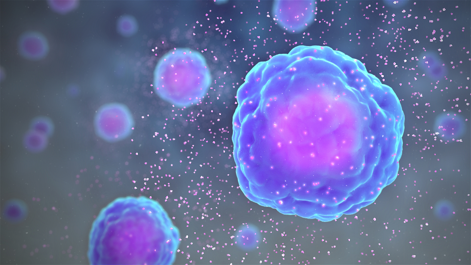 3D medical animation still of Cytokines that are important in cell signaling.